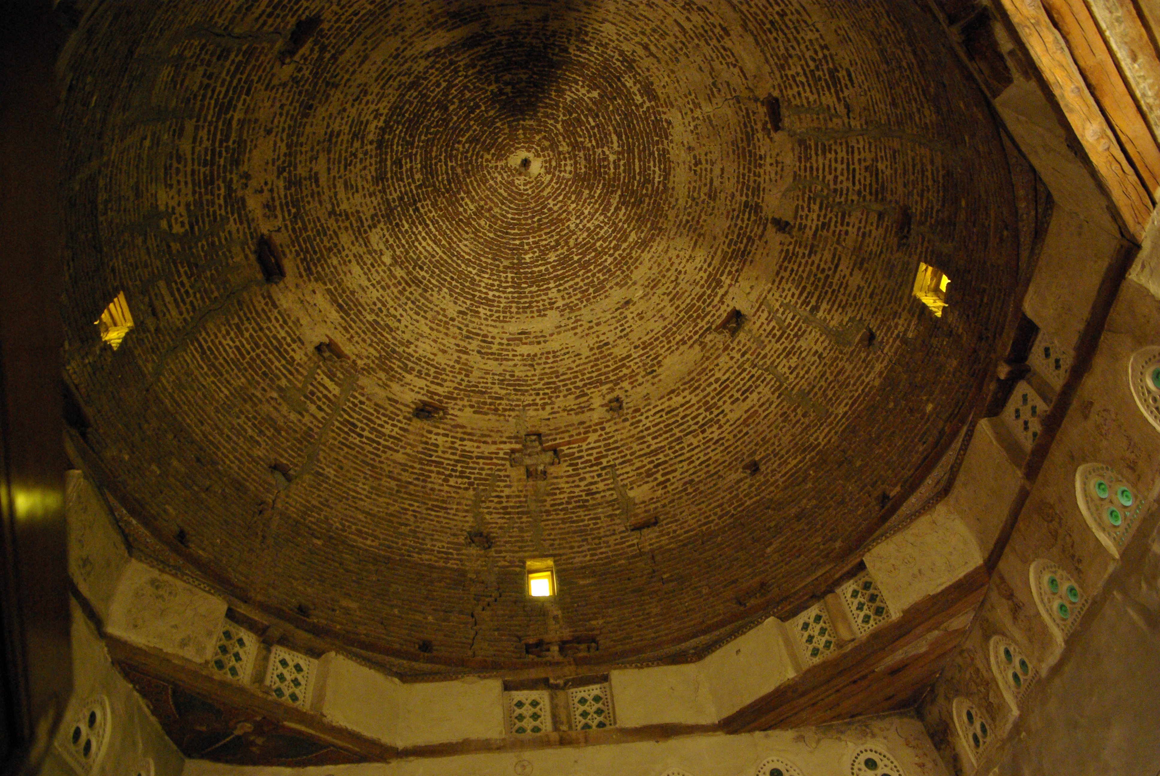 Monastery of Saint Macarius the Great, Wadi Natrun